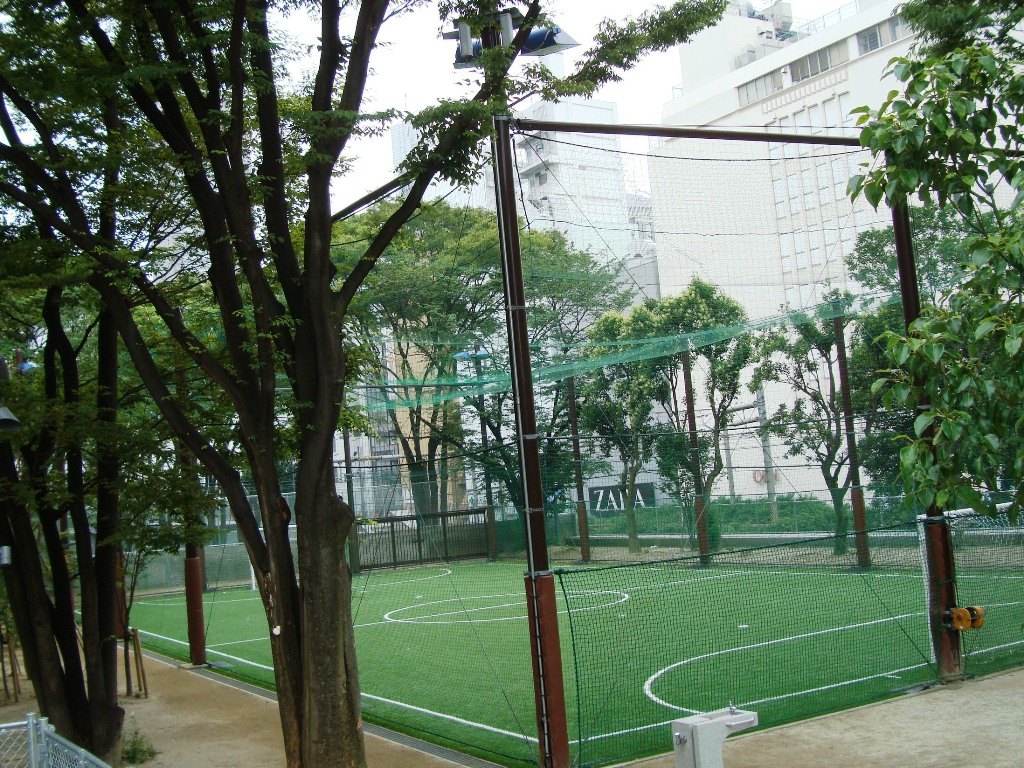 Futsal ground in Miyashita Koen park, Shibuya city, Tokyo